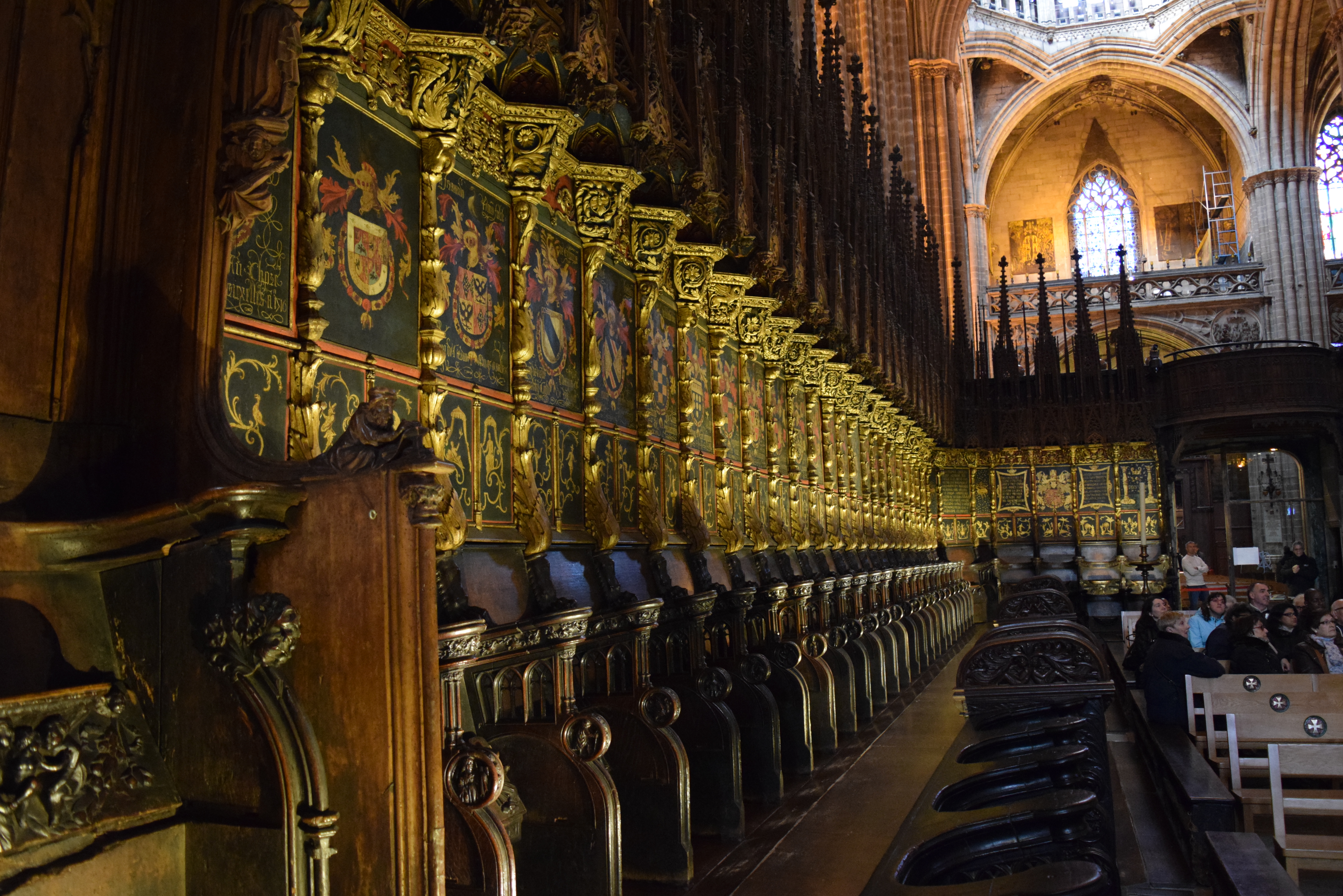 Gothic Quarter, Barcelona, Spain